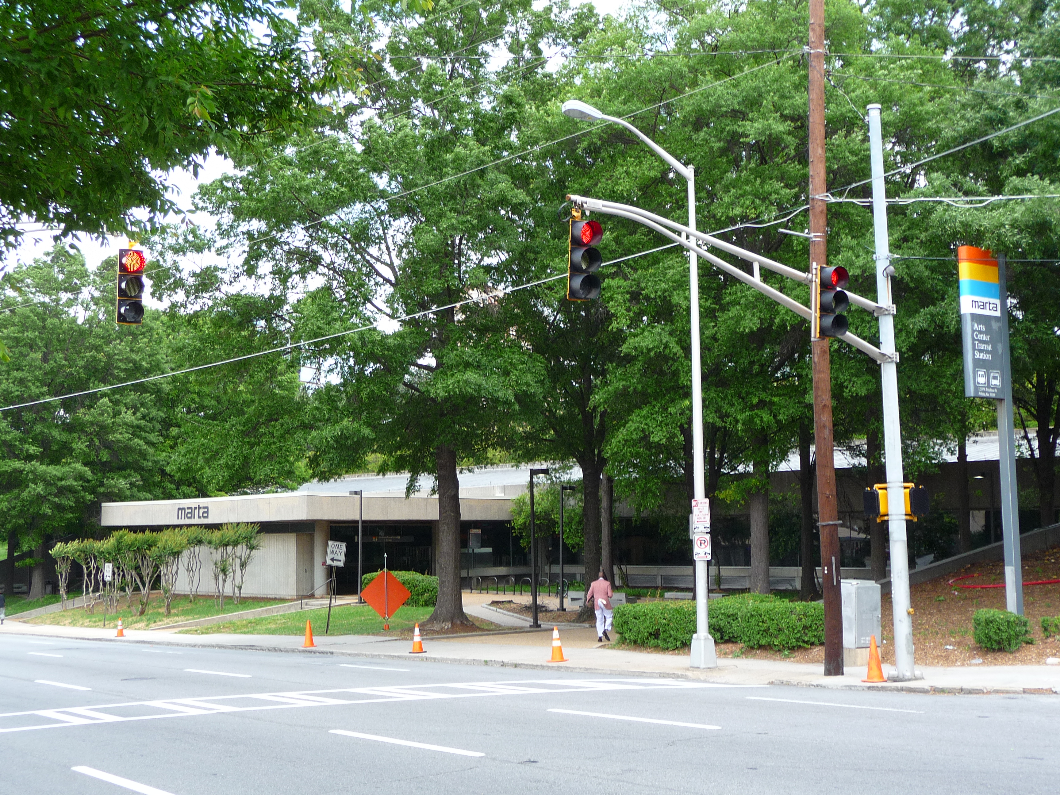 Arts Center Transit Station (MARTA)